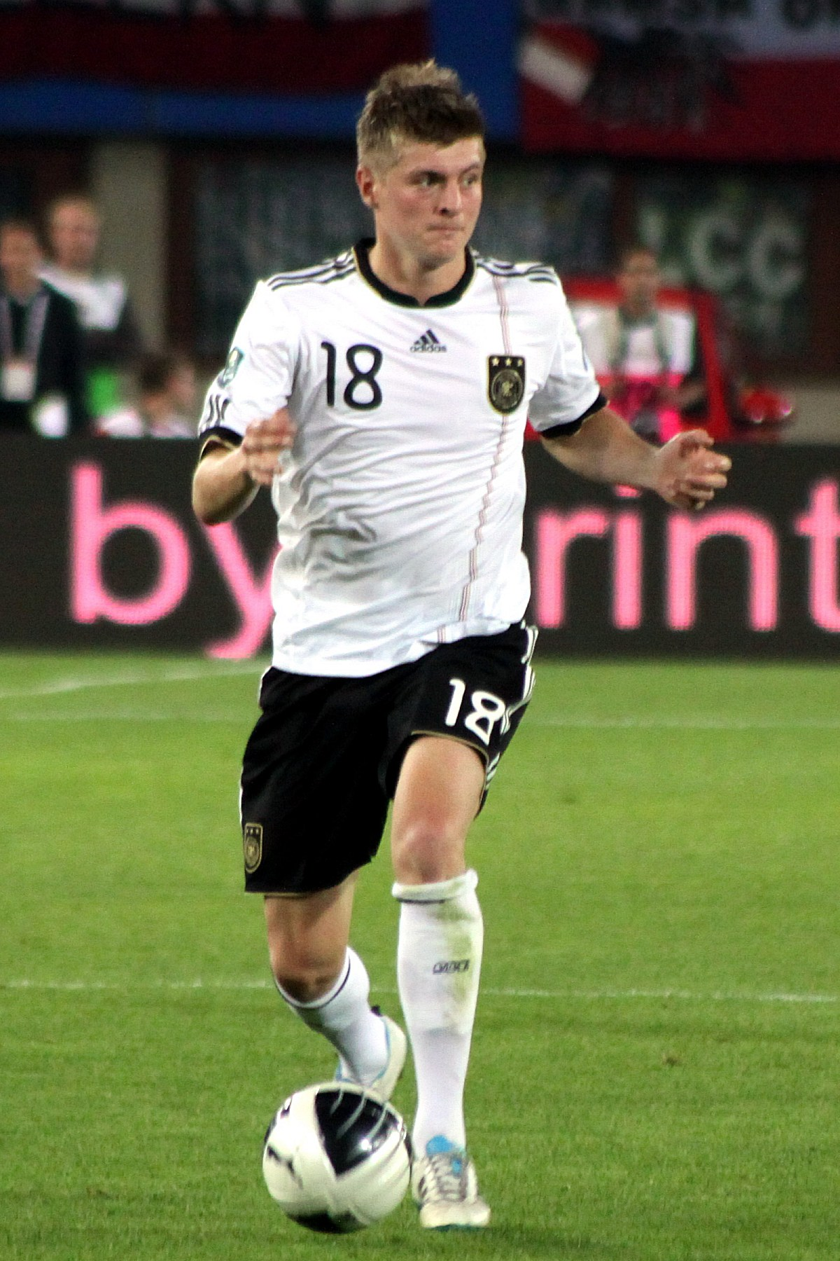 Toni Kroos (FC Bayern Munich), german national football team